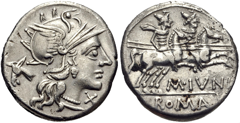 M. Junius Silanus 145 BC. AR Denarius (17mm, 3.72 g, 12h). Rome mint. Helmeted head of Roma right; behind, donkey’s head left; X (mark of value) below chin / The Dioscuri, holding spears, riding right. Crawford 220/1; Sydenham 408 and 412; Junia 8. VF, deposit on reverse.